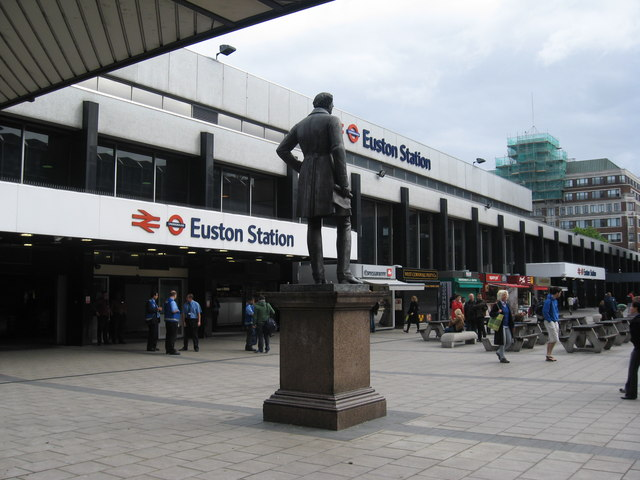 Euston Station London The original Euston station opened in 1837 but was completely rebuilt in conjunction with the electrification of the West Coast Main Line between 1963 and 1968. The present station was designed by British Rail’s Midland regional architect, R. L. Moorcroft and team, and was opened by Queen Elizabeth 2 in 1968.The statue of Robert Stephenson was retained in the present forecourt following the demolition of the original station. This bronze sculpture was by Carlo Marochetti.